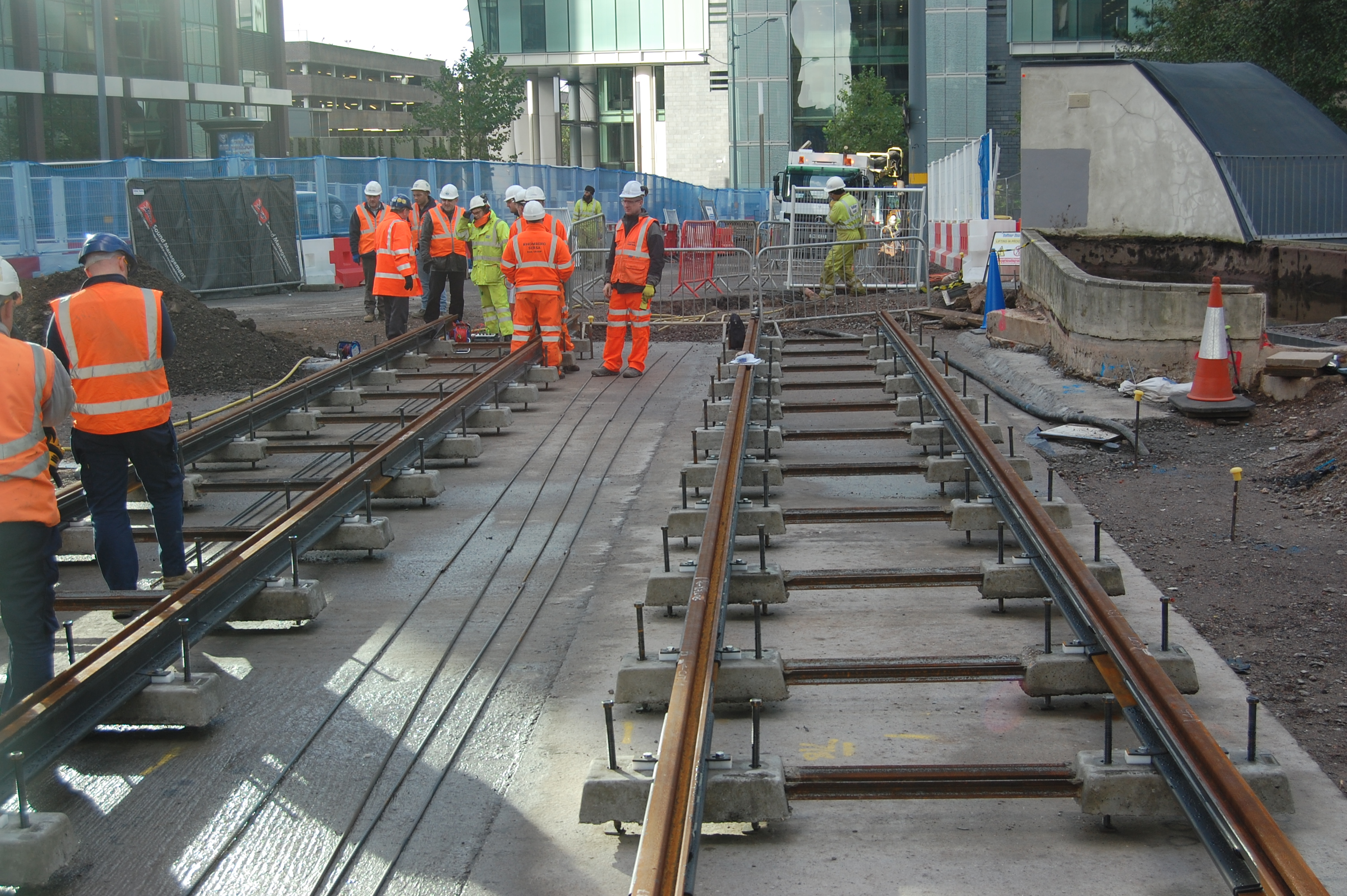 Track laying for the extension of line one of the Midland Metro in Upper Bull Street, Birmingham, England.